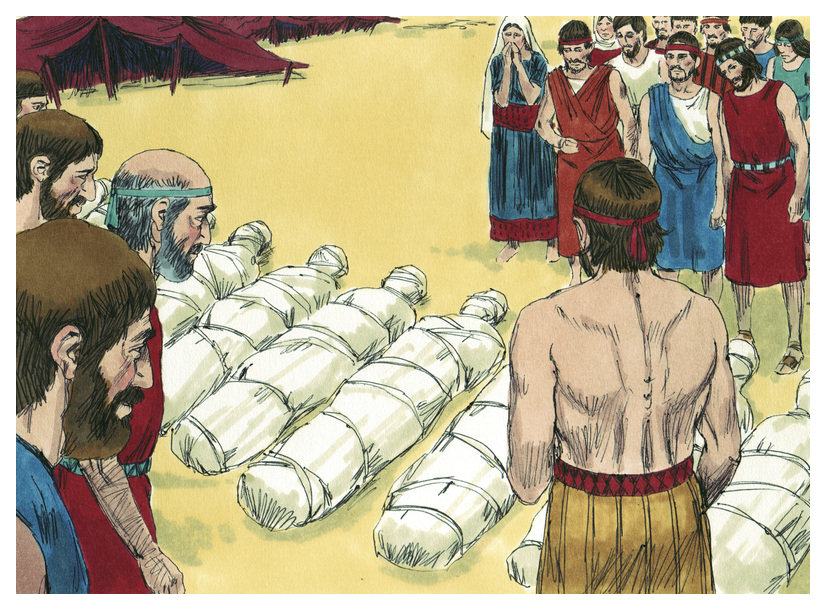 Biblical illustration of Book of Numbers Chapter 14